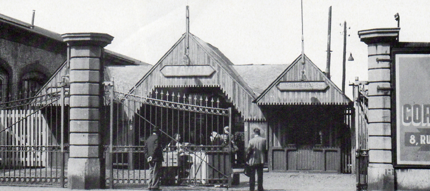 Allée Verte / Groendreef station in Brussels (operational 1835-1954).